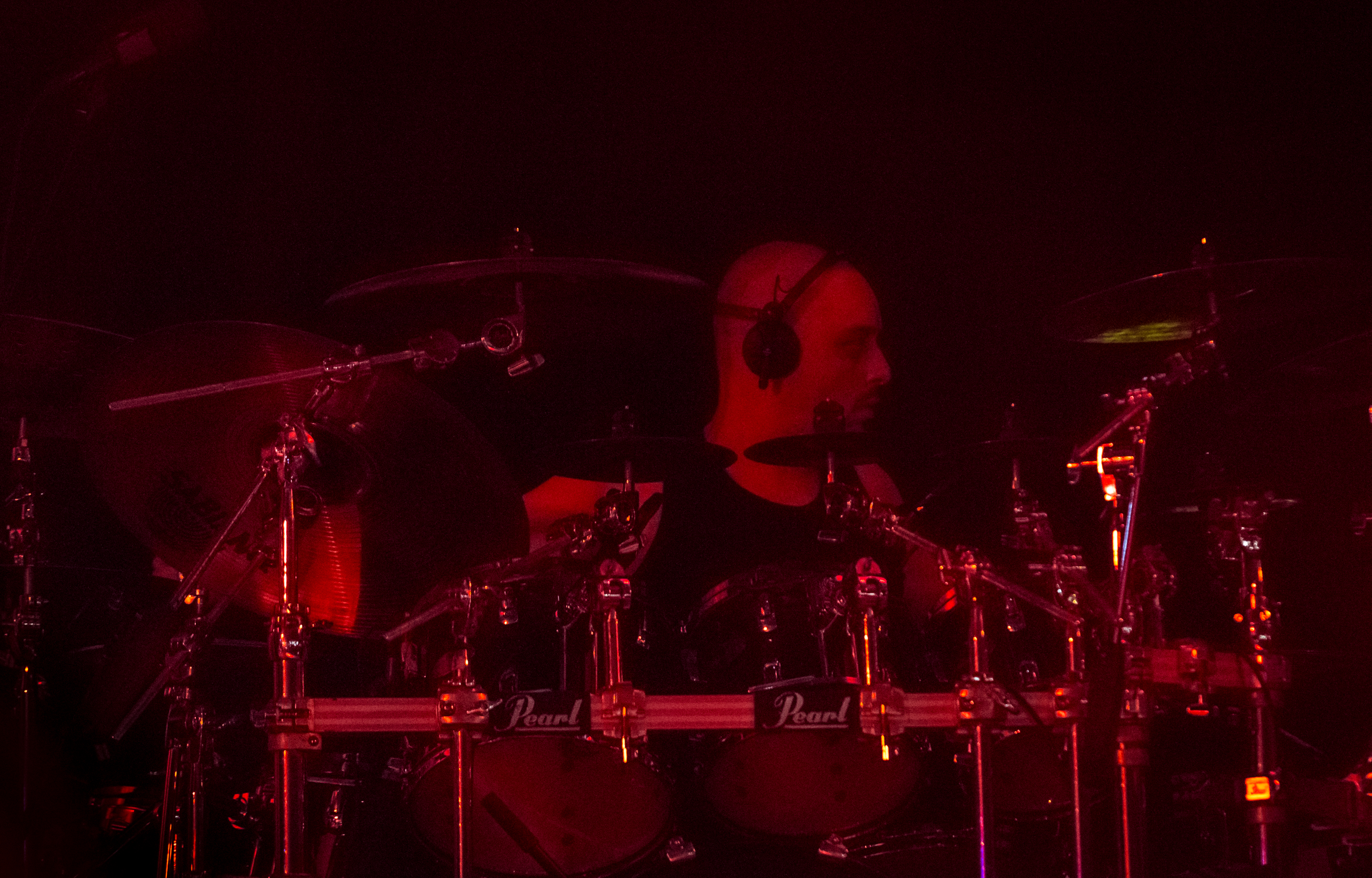 Cradle of Filth - Wacken Open Air 2015